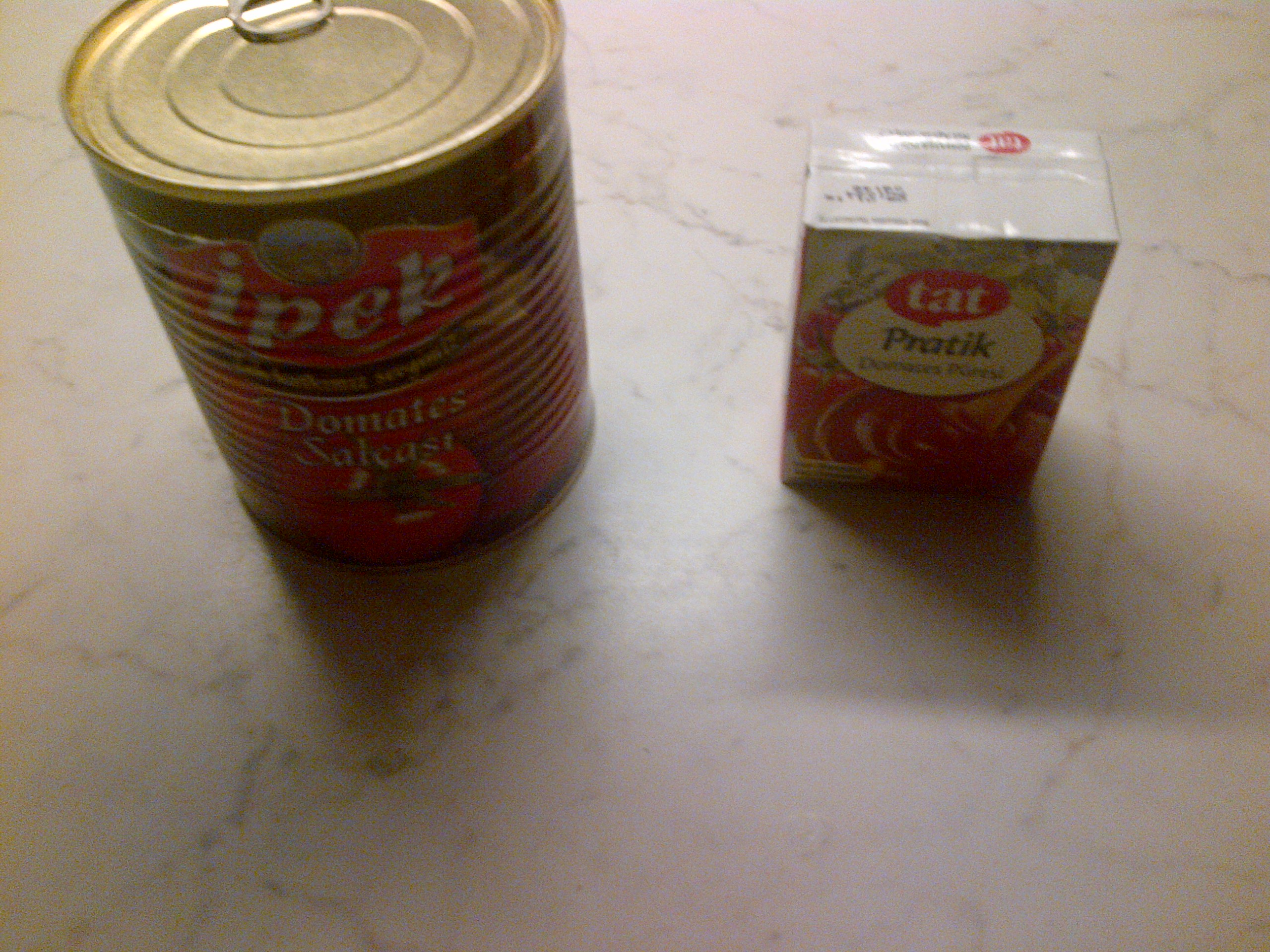 "Domates salçası" ve "domates püresi", Turkish style tomato paste and tomato purée.